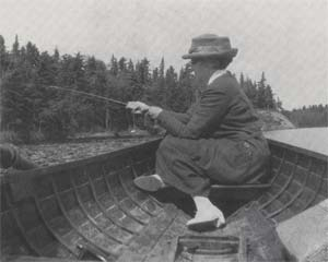 Edith S. Watson (1861-1943)